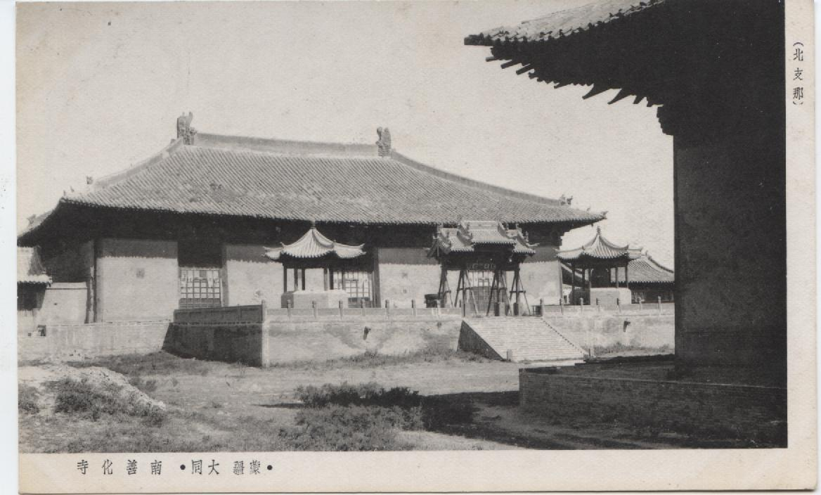 Shanhua Temple, Datong, Shanxi, PR China. The photo was shot during the 2nd Sino-Japanese War, and was among a set of postcards released by Japanese invaders.